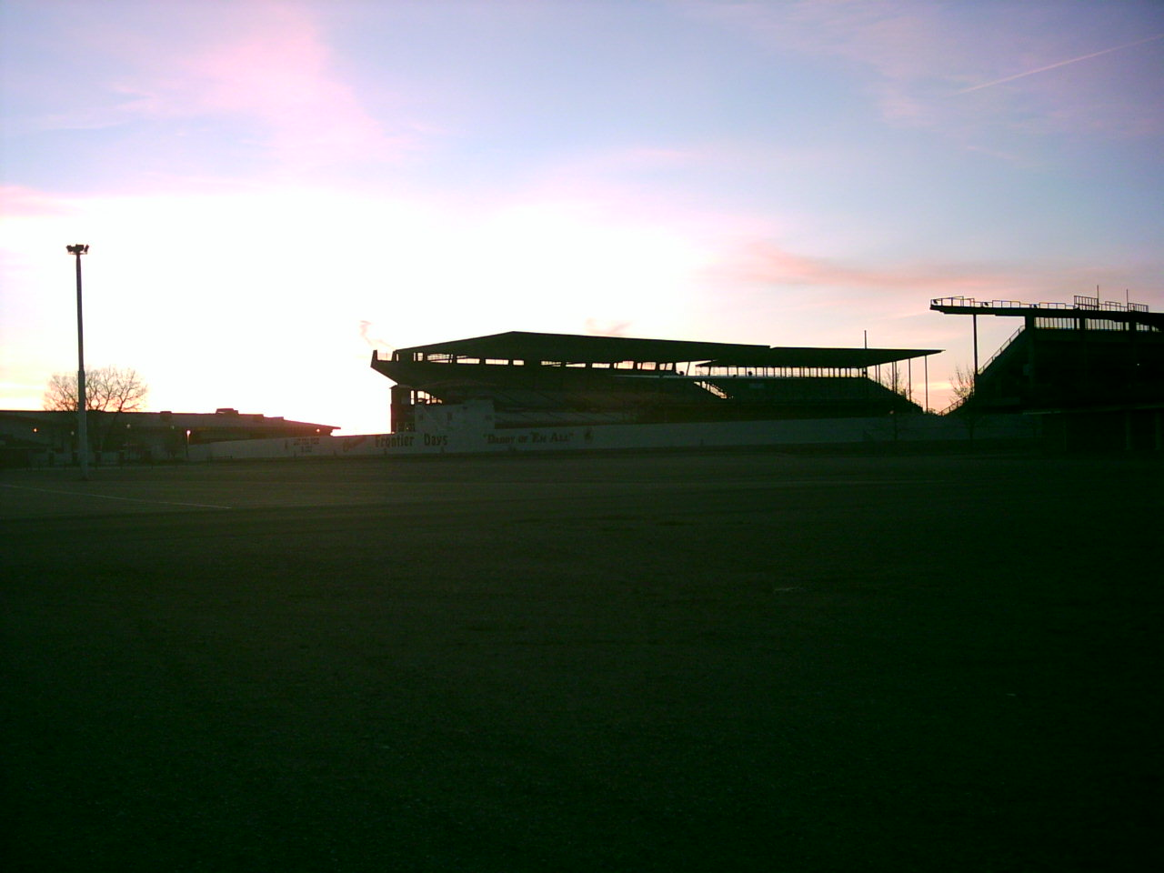 Frontier Park, Cheyenne, Wyoming